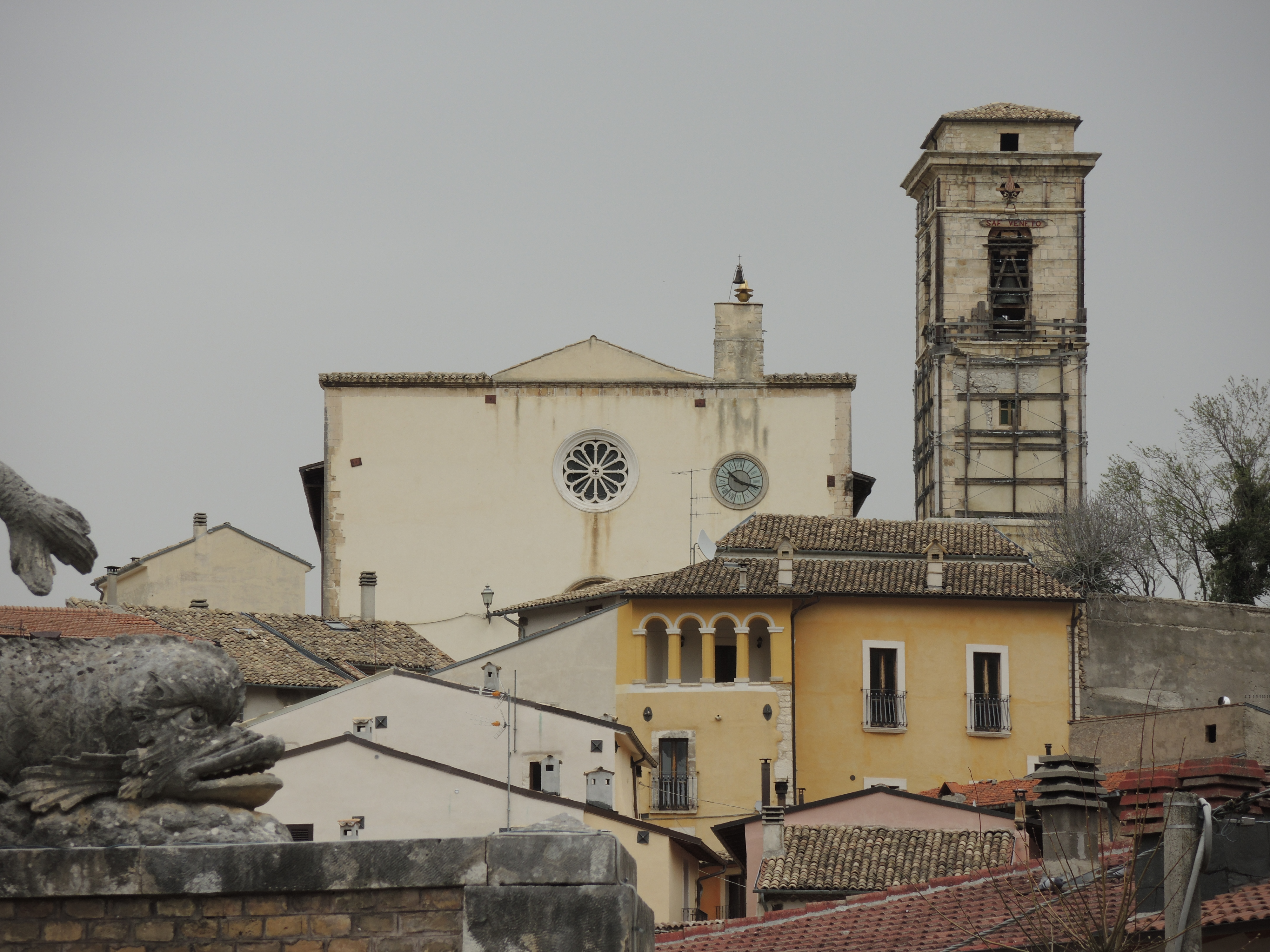 Goriano Sicoli: Chiesa di Santa Maria Nova